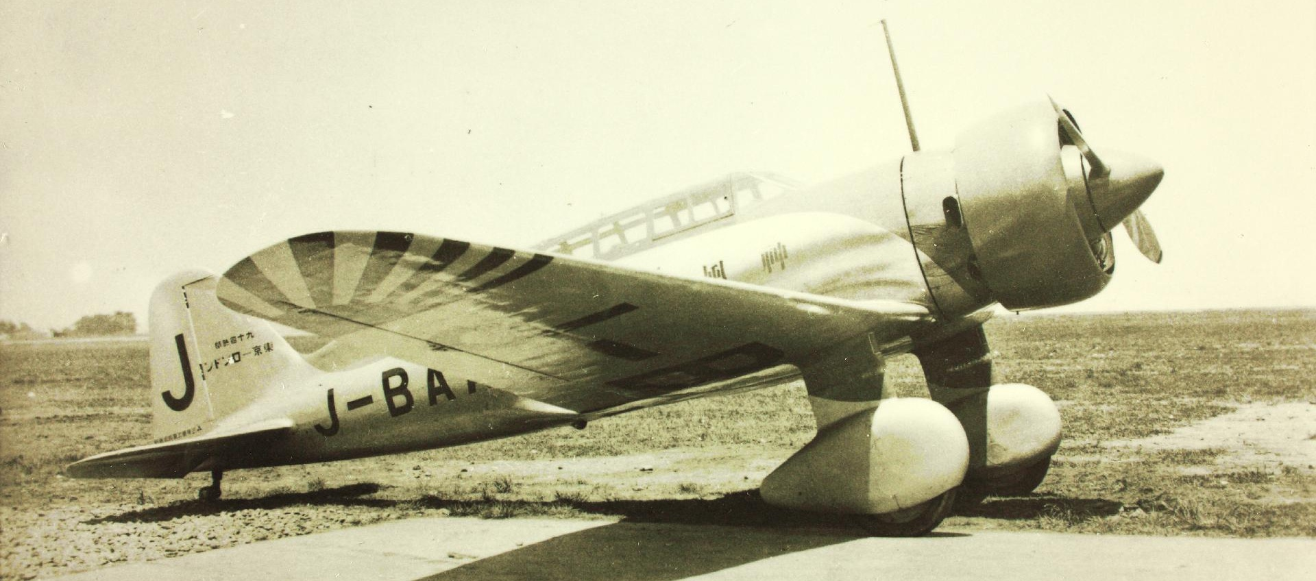 Mitsubishi Ki-15 "Kamikaze", owned by the Asahi Shimbun newspaper group. Catalog #: 01_00085875 Title: Mitsubishi, Ki-15, Babs Command Recon Aircraft Corporation Name: Mitsubishi Official Nickname: Babs Command Recon Aircraft Additional Information: Japan Designation: Ki-15 Tags: Mitsubishi, Ki-15, Babs Command Recon Aircraft Repository: San Diego Air and Space Museum Archive